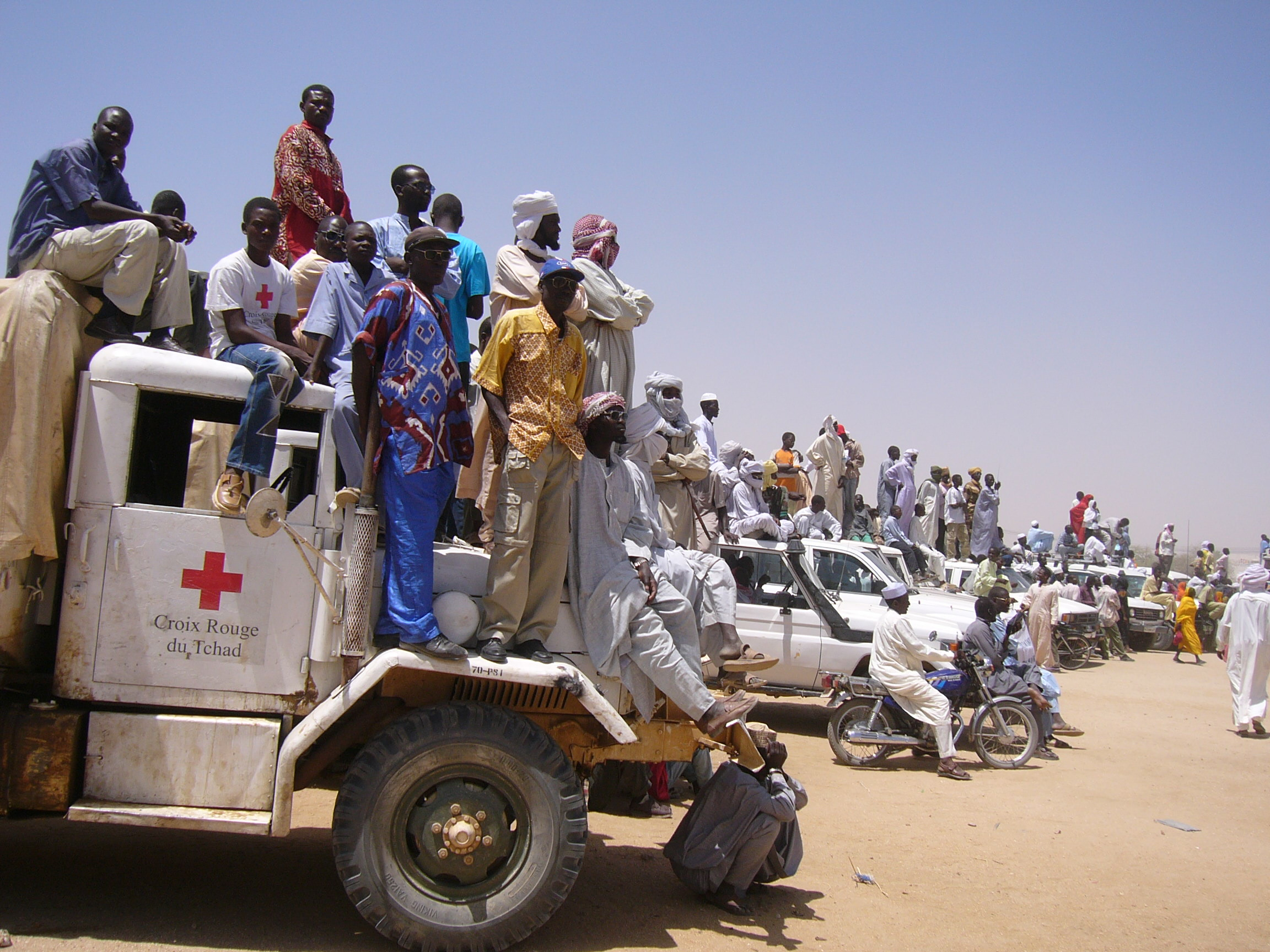 People at a coronation in Chad standing on Red Cross vehicles